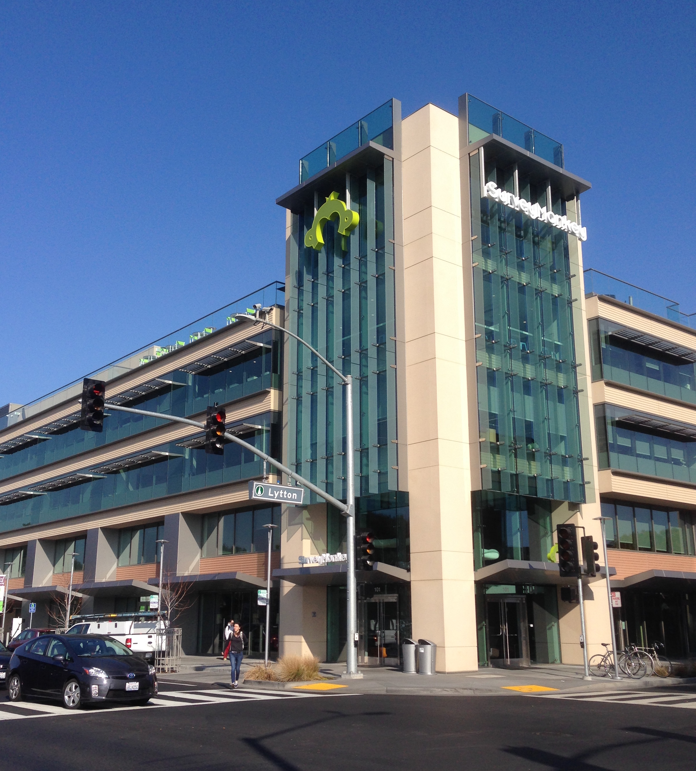 SurveyMonkey Building in Palo Alto, California. SurveyMonkey is an online survey development cloud based company, founded in 1999.